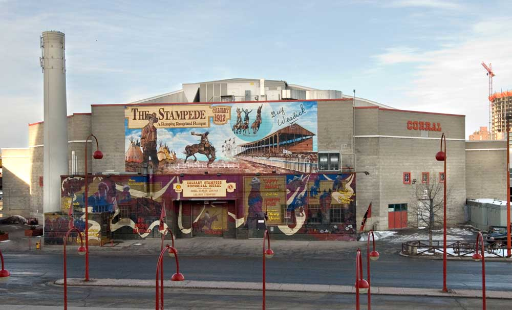 The Stampede Corral in Calgary, Alberta. Photo by Chuck Szmurlo taken March 17, 2007 with a Nikon D200 and a Nikon 12-24 f4 lens.